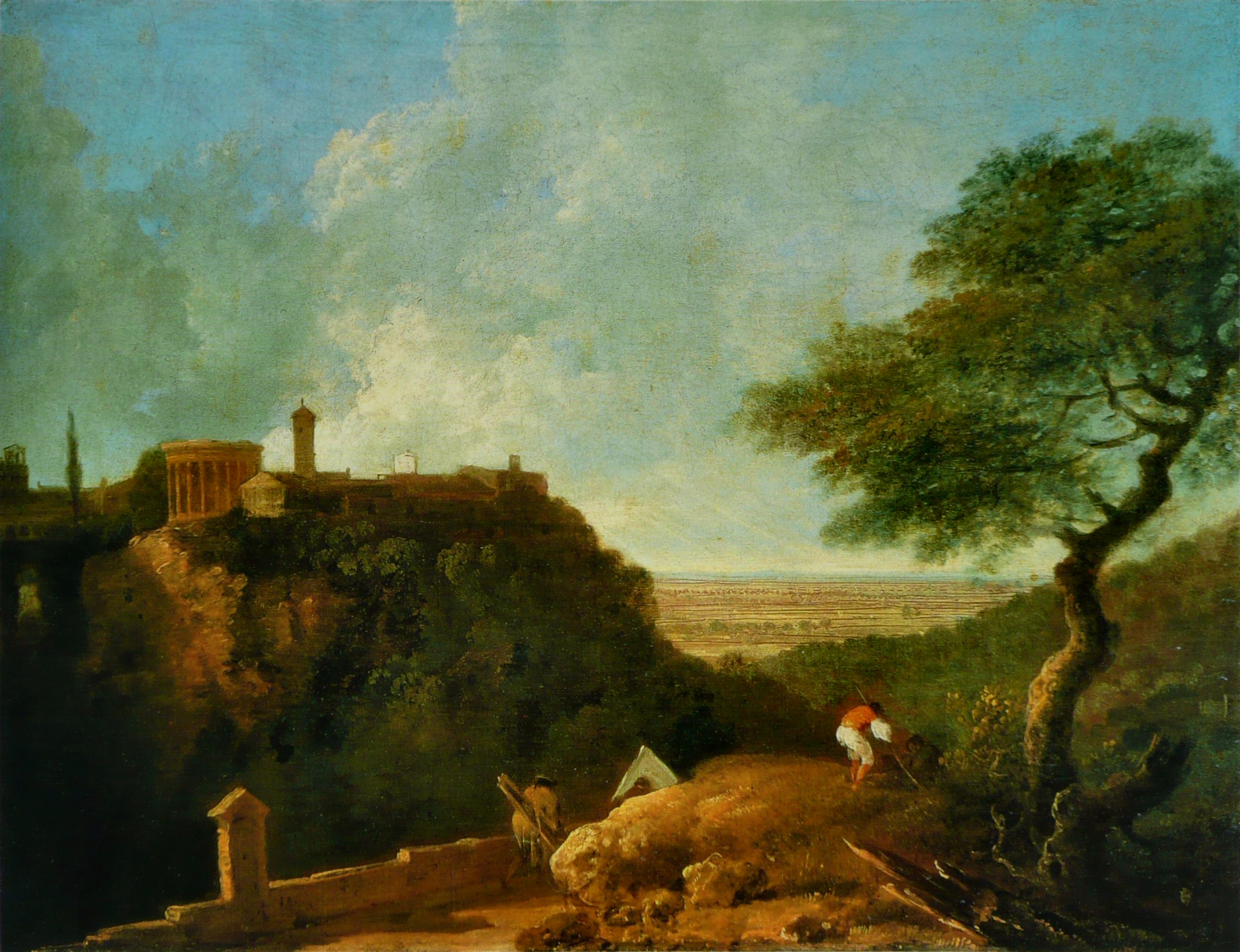 Tivoli: Temple of the Sibyl and the Campagna